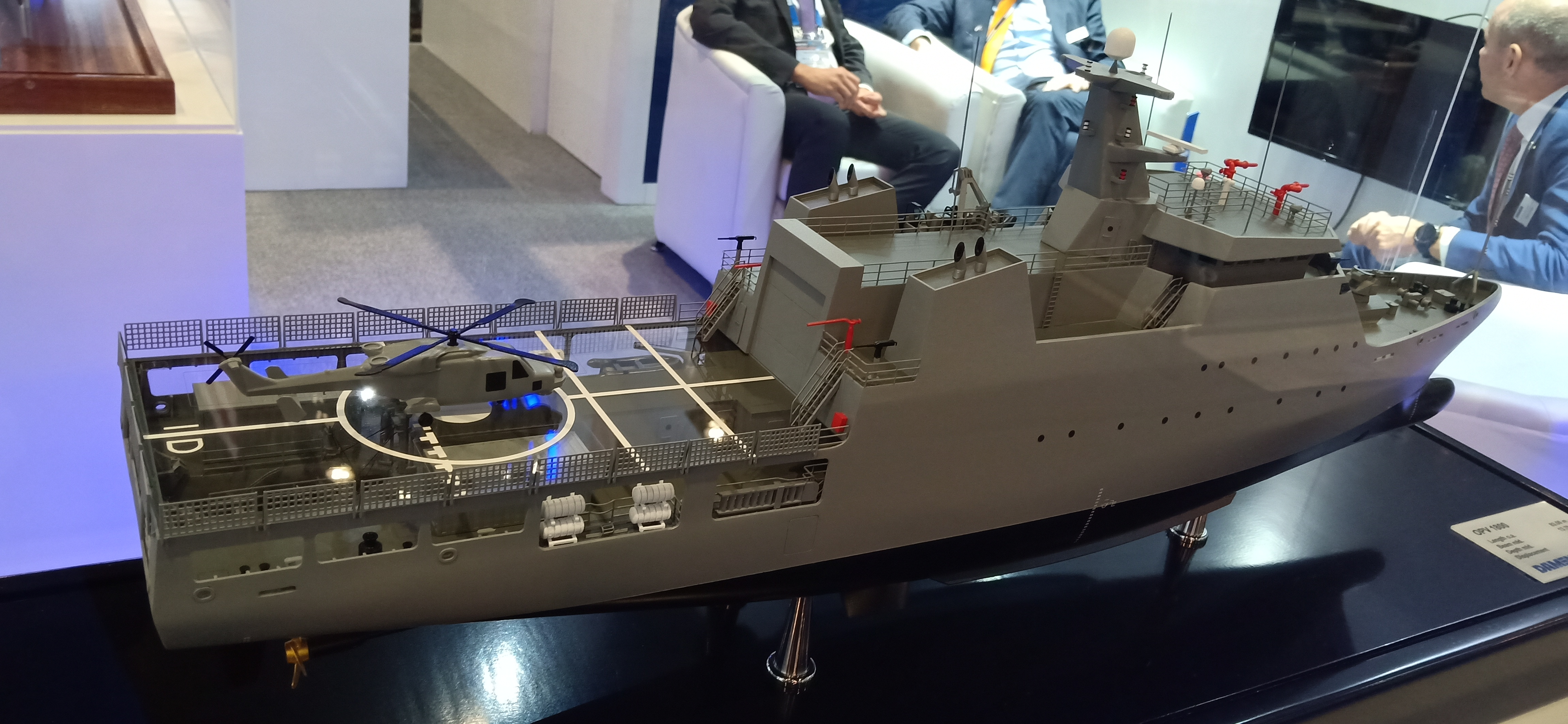 Rear view of a scale model of an OPV-1800 vessel made by the Dutch company Damen. Photo taken during the 2018 Asian Defence and Security (ADAS) Trade Show at the World Trade Center in Pasay, Metro Manila.